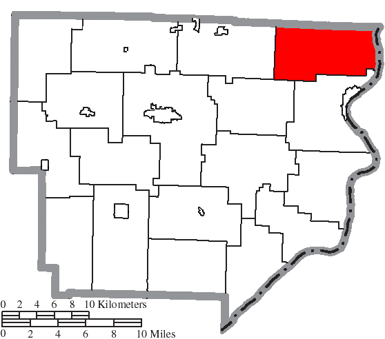 Map of the municipal and township boundaries of Monroe County, Ohio, United States, as of the 2000 census, with the location of Switzerland Township highlighted. Township borders are shown only in unincorporated areas in order to differentiate incorporated and unincorporated areas more clearly.